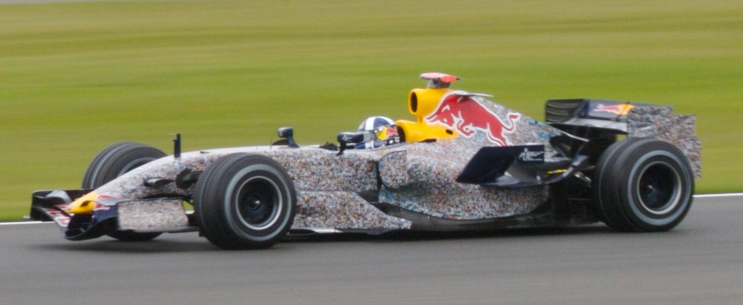 David Coulthard driving for Red Bull Racing at the 2007 British Grand Prix.